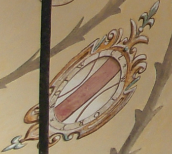 Kotwicz coat of arms in Baranow-Sandomierski castle. Detail of Image:Baranów Sandomierski - castle 03.JPG full resolution, by User:Piotrus and tagged with the same “self2.GFDL.cc-by-sa-2.5,2.0,1.0” license.